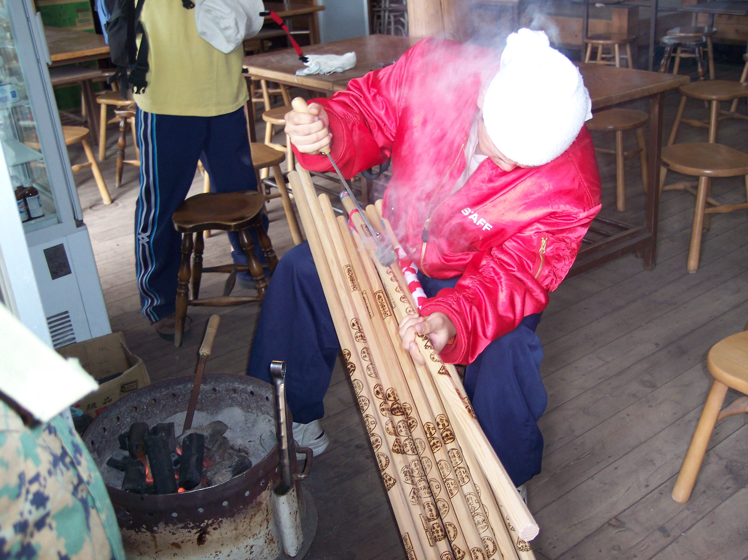 Inscriptions are burned into your staff at each station checkpoint along the way to the top of mount Fuji. Pretty cool stuff.